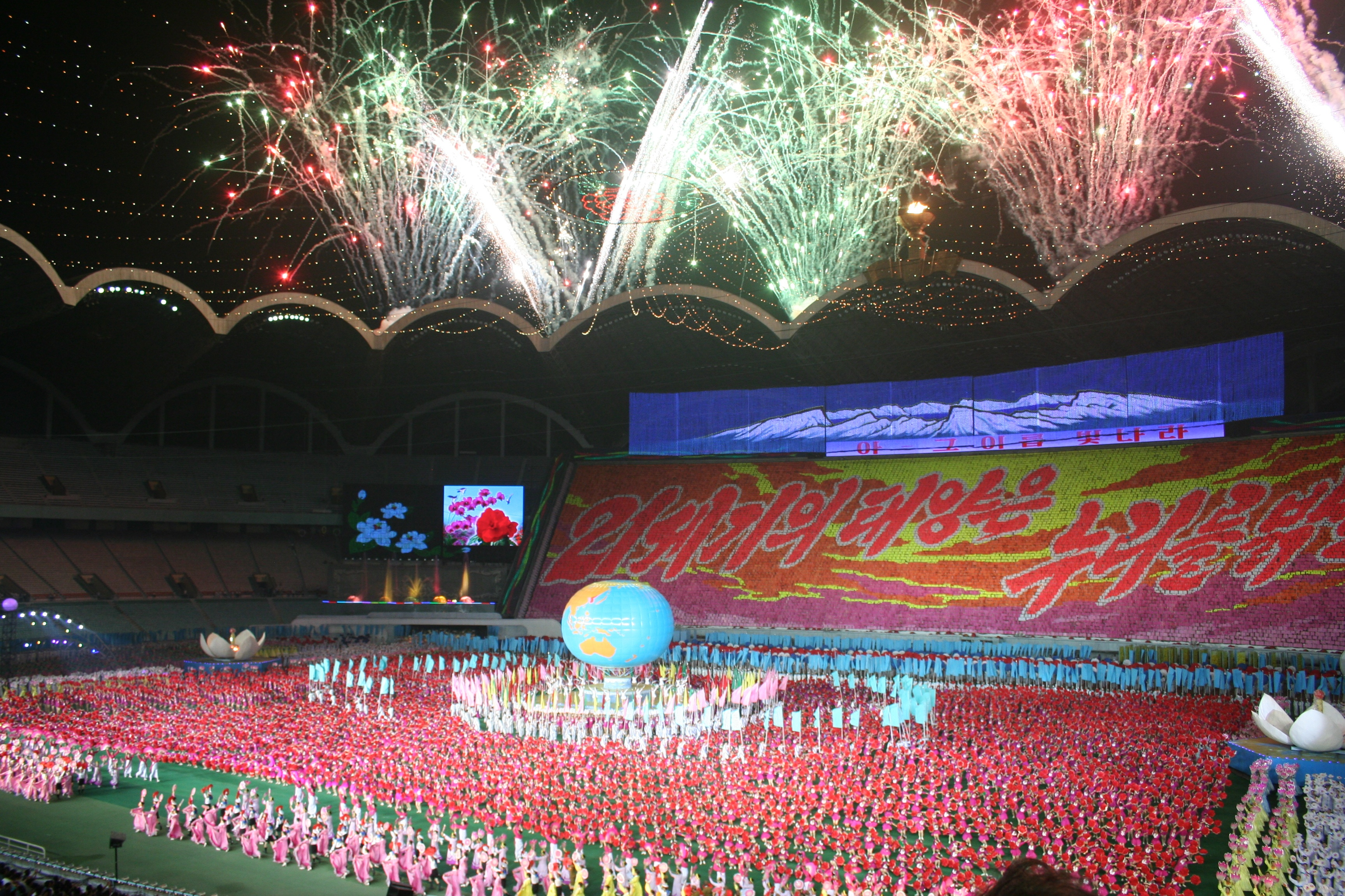 Arirang Mass Games, Pyongyang